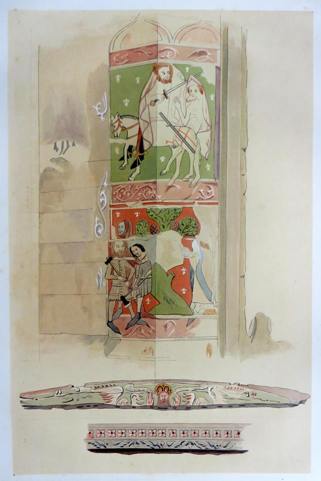 St Martin in the Bull Ring, Birmingham, from the 1875 book History of Old St. Martin's, Birmingham by J. T. Bunce.